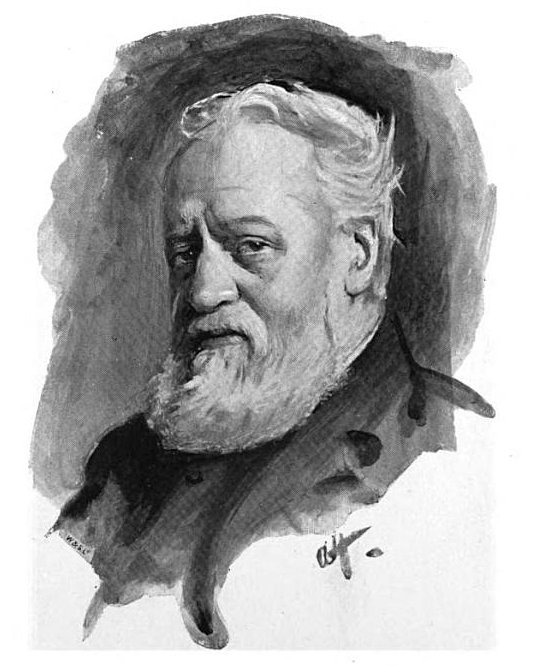 A portrait of the Rev G.A. MacDonell from the book "The knights and kings of chess" by G.A. MacDonell From Google Books: Title The knights and kings of chess Author George Alcock MacDonnell Publisher H. Cox, 1894 Original from Harvard University Digitized Apr 22, 2008 Length 206 pages